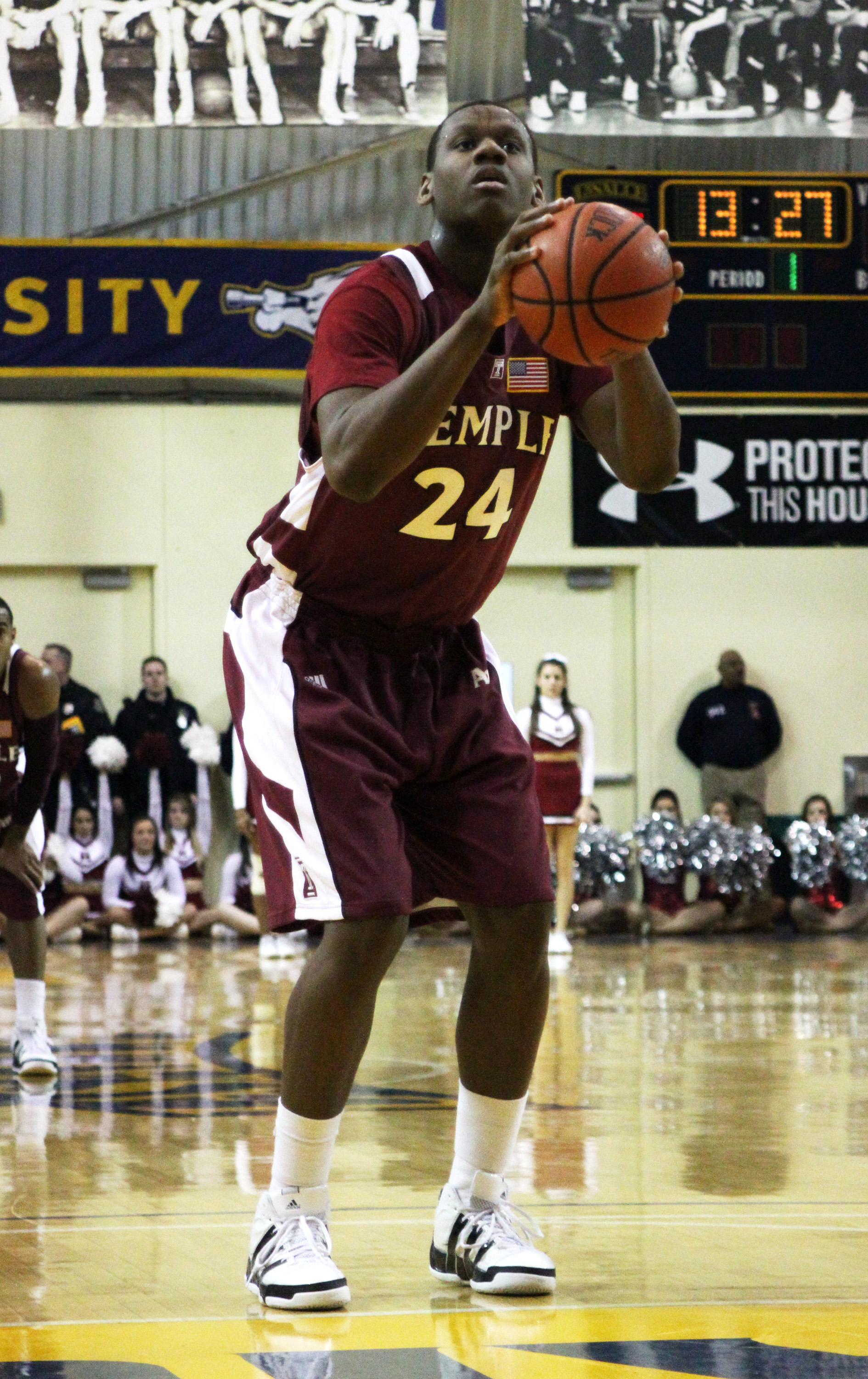 Temple's #24 Junior Forward Lavoy Allen